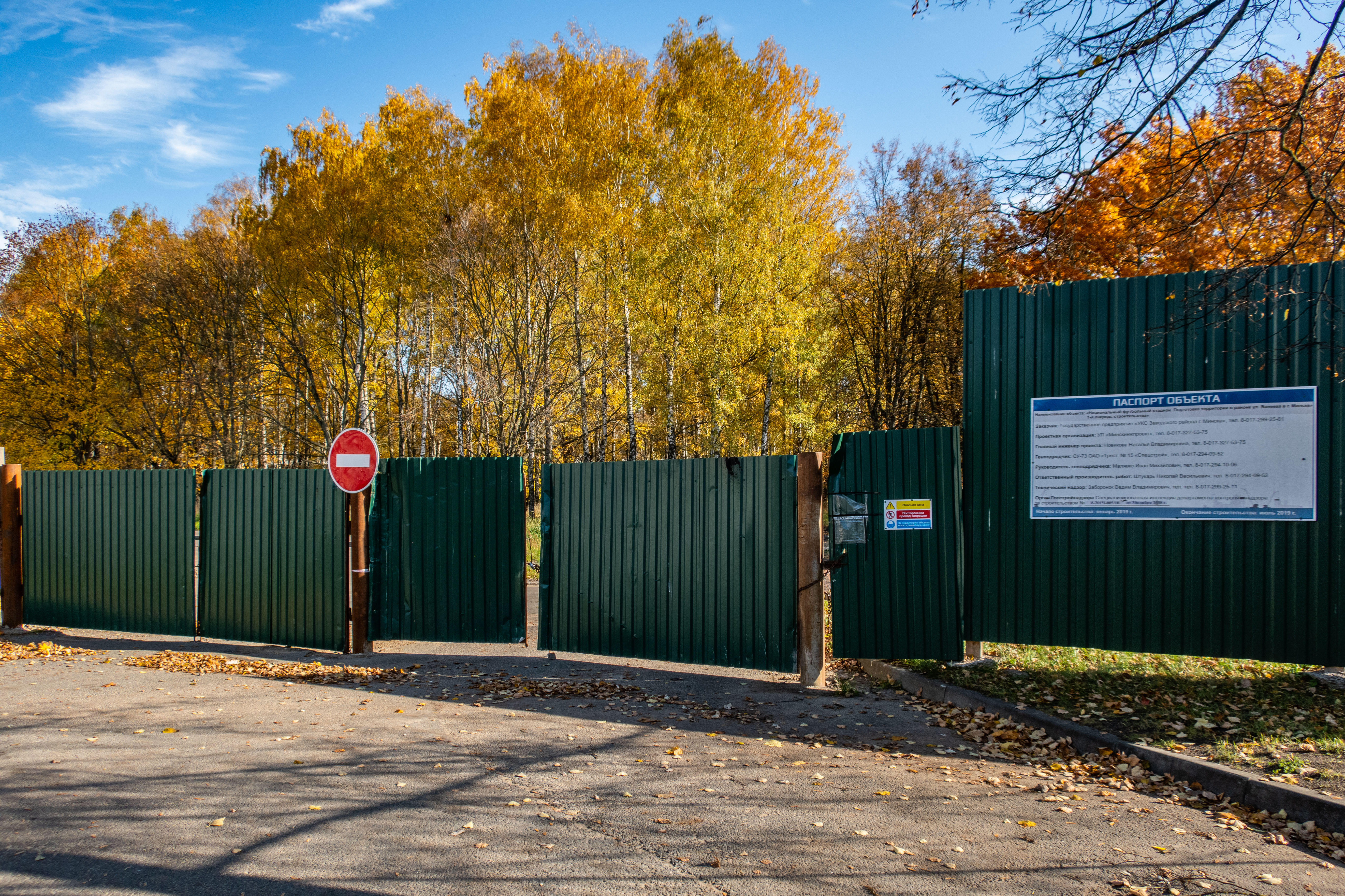 National football stadium — entrance during construction. Minsk, Belarus